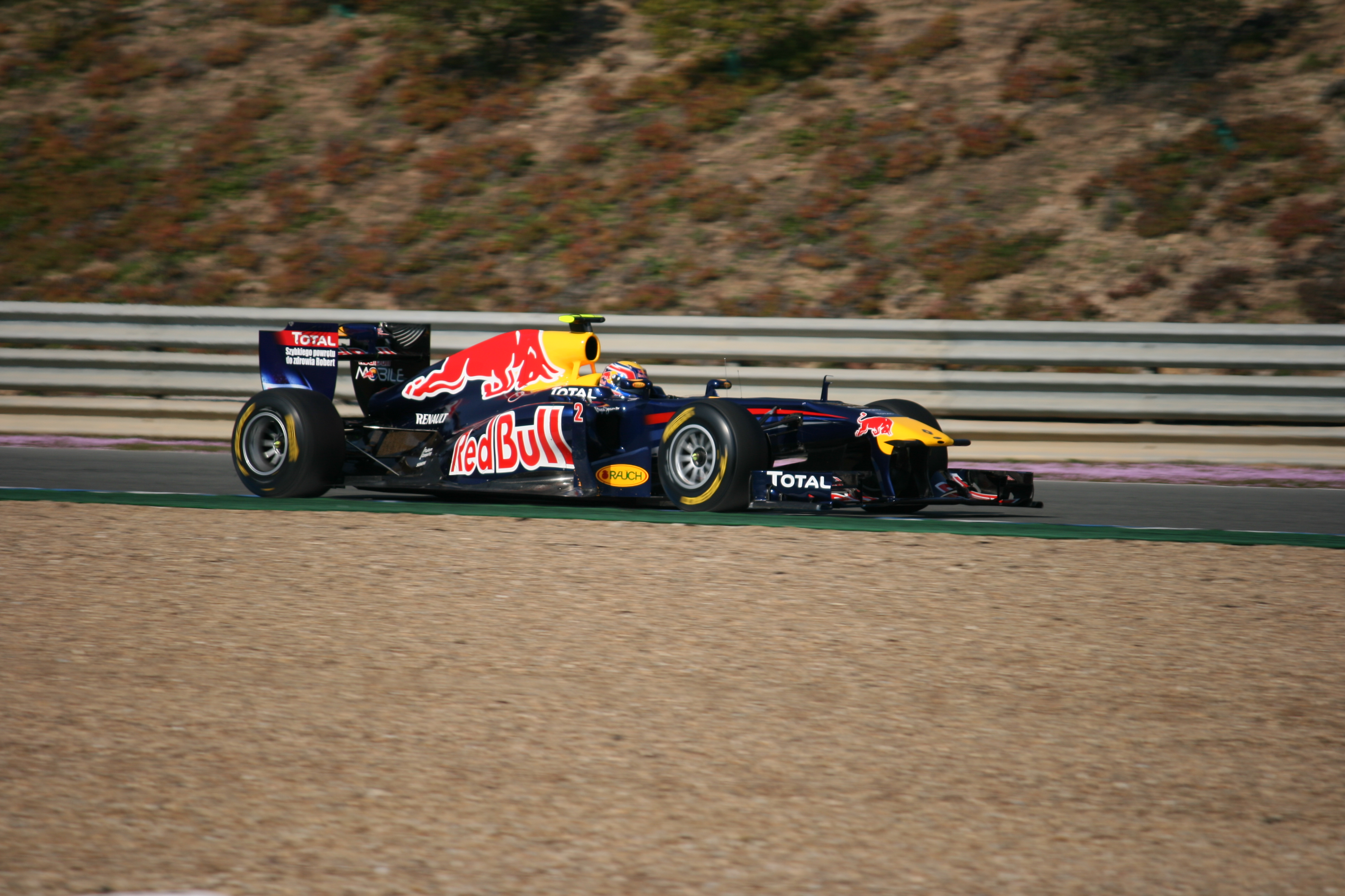 Mark Webber testing for Red Bull Racing at Jerez.